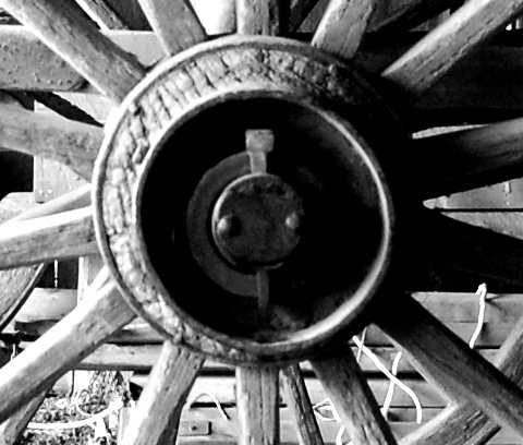 Cotter of a wagon wheel at Black Creek Pioneer Village.